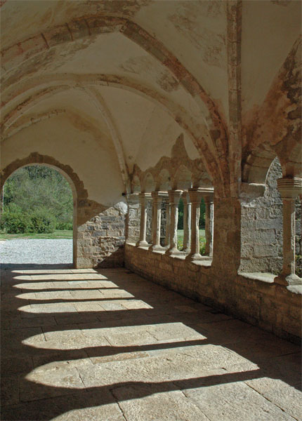 Sylvanès abbey. France